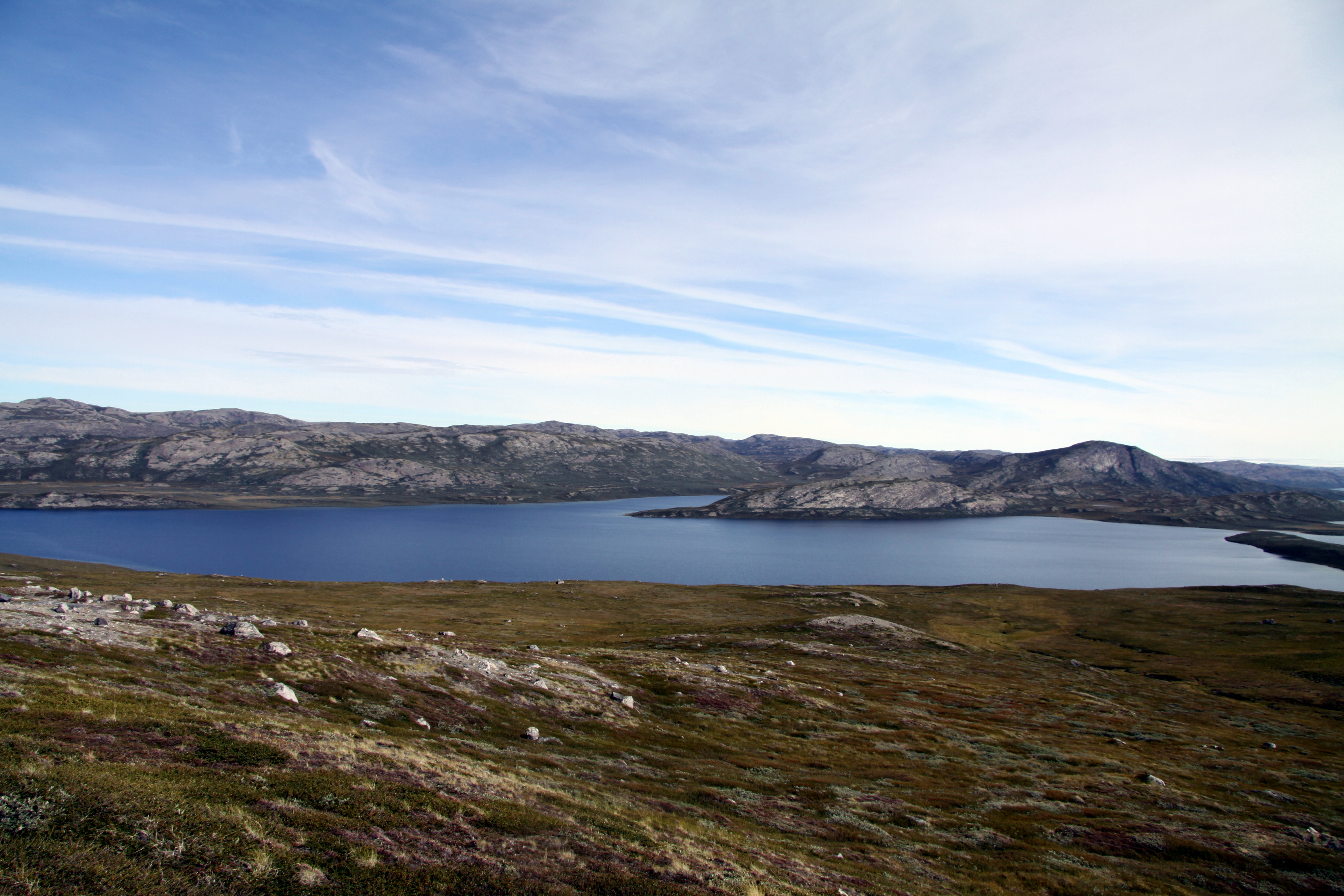 Lake Sanningasoq noth-eastern from Kangerlussuaq village, Western Greenland